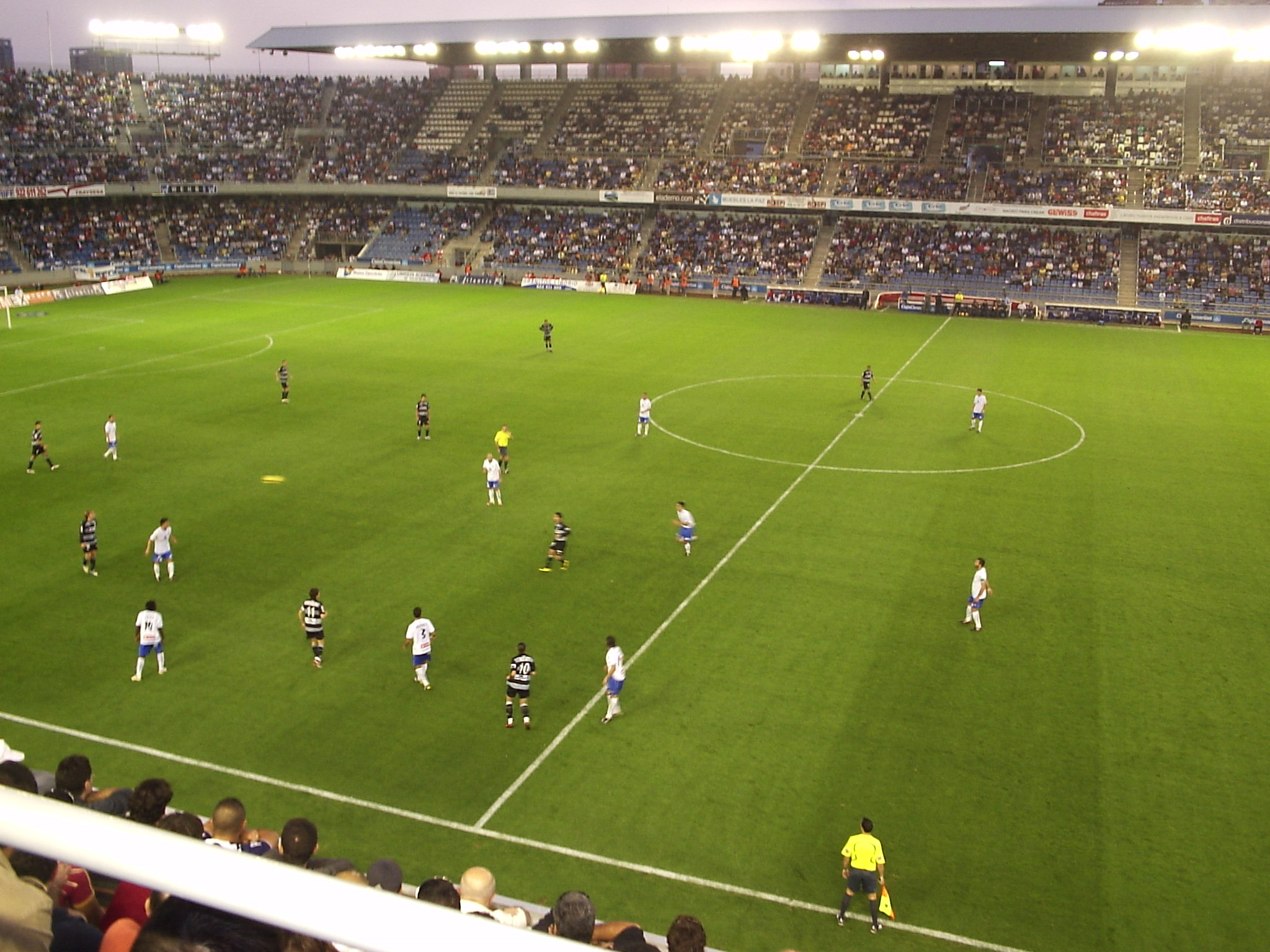 Tenerife - Real Sociedad. Rodríguez López. Santa Cruz de Tenerife, Tenerife, Canary Islands, Spain